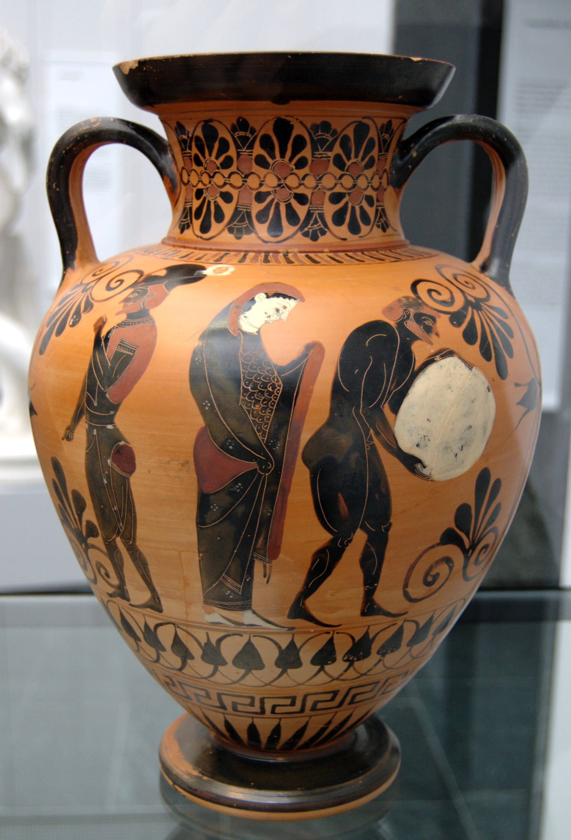 Nekyia: rancorous Ajax, Persephone supervising Sisyphus pushing his rock in the Underworld. Side A of an Attic black-figure amphora, ca. 530 BC. From Vulci.